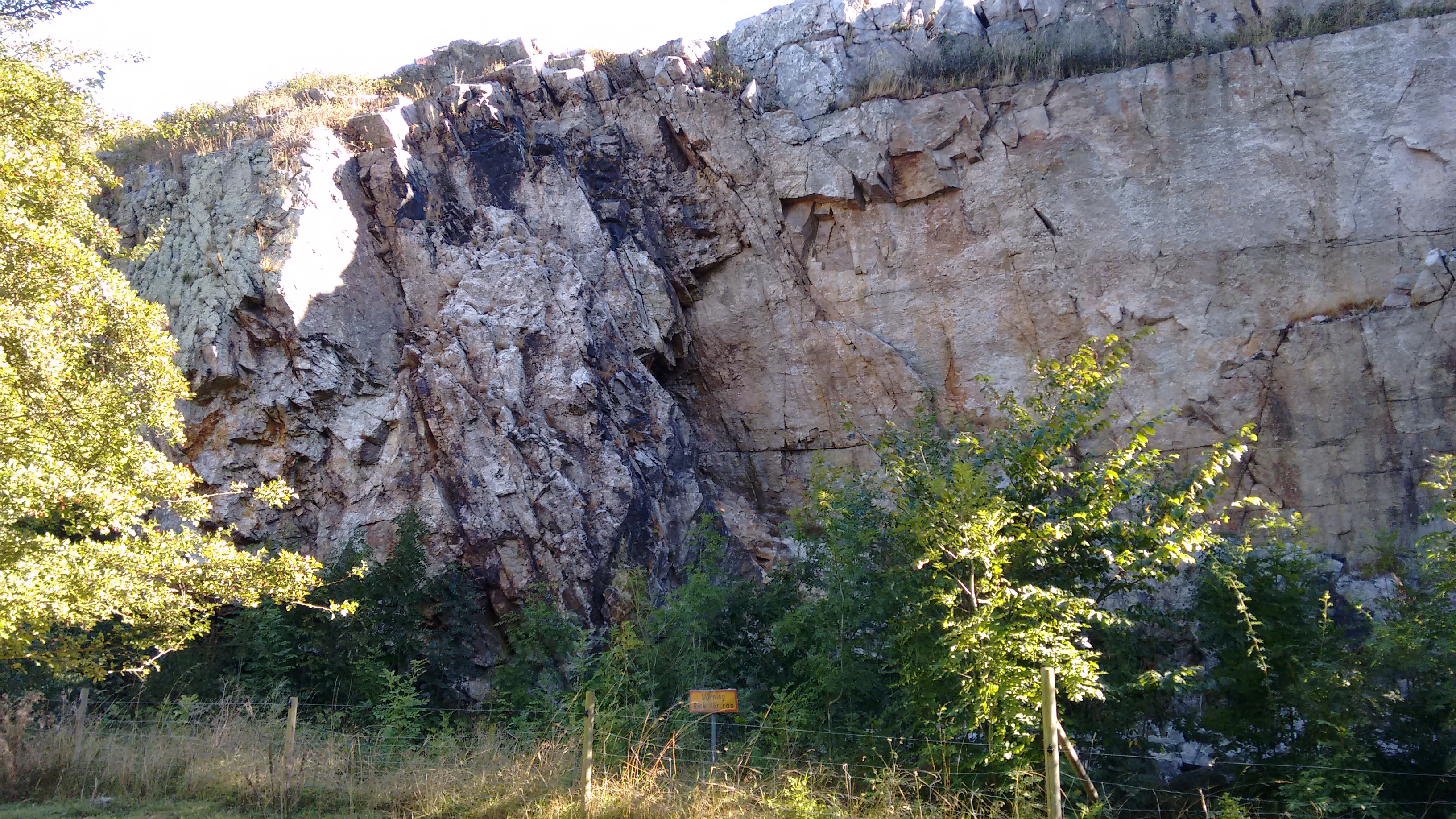 The old fluorite quarry of gladsax.